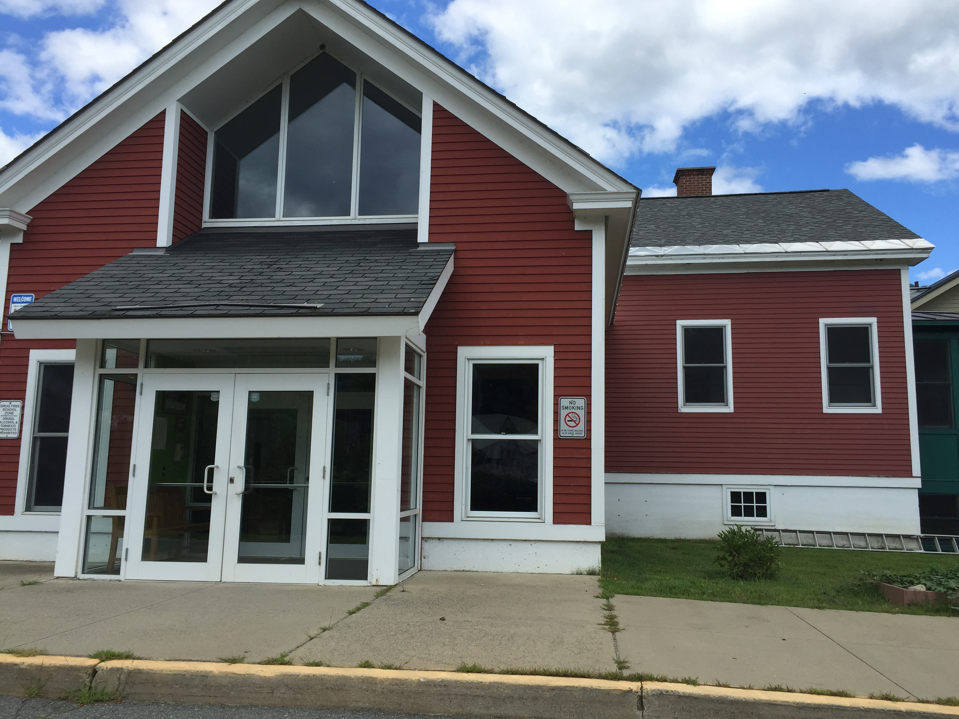 A small red schoolhouse in rural Vermont.